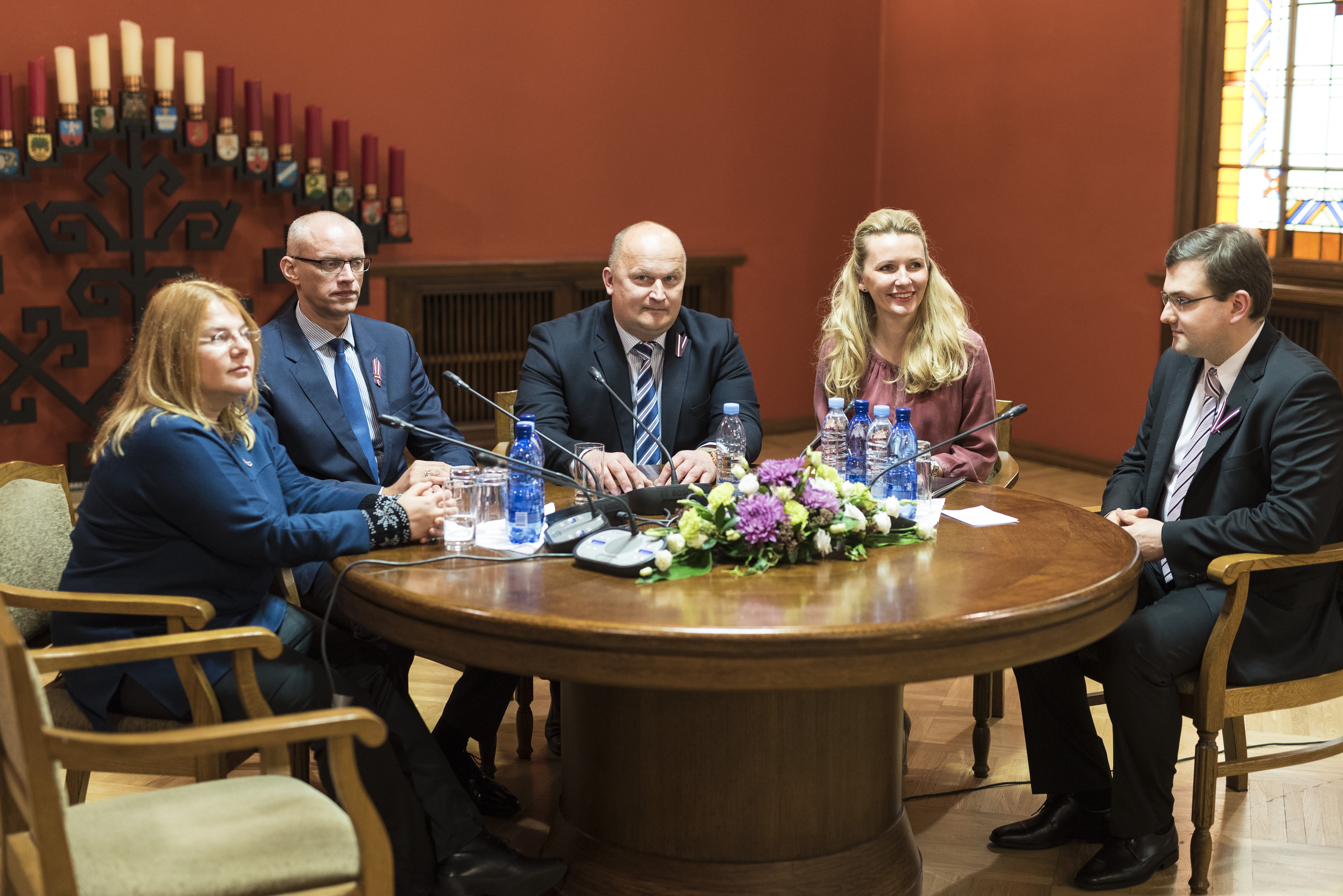 Filmas “Latvijas valsts simboli” pirmizrāde Latvijas Republikas Saeimā, 2015.gada 10.novembrī (filmu skatī šeit)